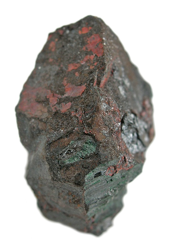 Jacobsite, Manganosite, Zincite Locality: Franklin Mine, Franklin, Franklin Mining District, Sussex County, New Jersey, USA (Locality at ) Size: thumbnail, 3.0 x 2.0 x 1.5 cm Manganosite with Zincite, Jacobsite A relatively large, sharp, and (i am told by those who know more than I ) pretty good crystal of this rarity! Cahrlie , a New Jersey native and specialist, was very impressed by these crystals and kept them around for at least the last 30 years, after getting them in an old collection. This one is cleaved in back but shows nice upper faces and is a significant, fine representative of the species from this locality. Some might say impressively ugly, but they are prettier than most such crystals due to the accenting zincite color.